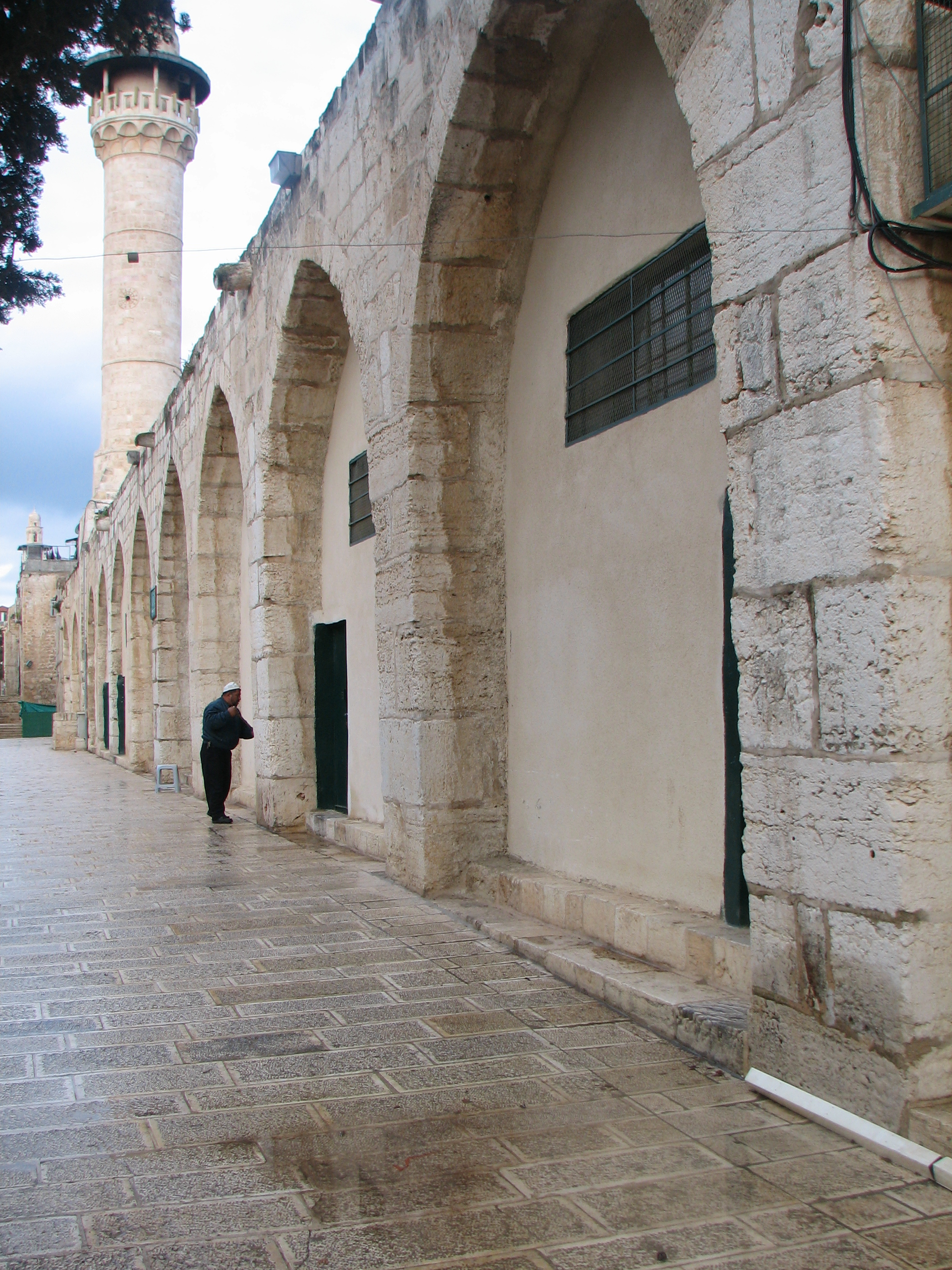 Al-Aqsa Mosque